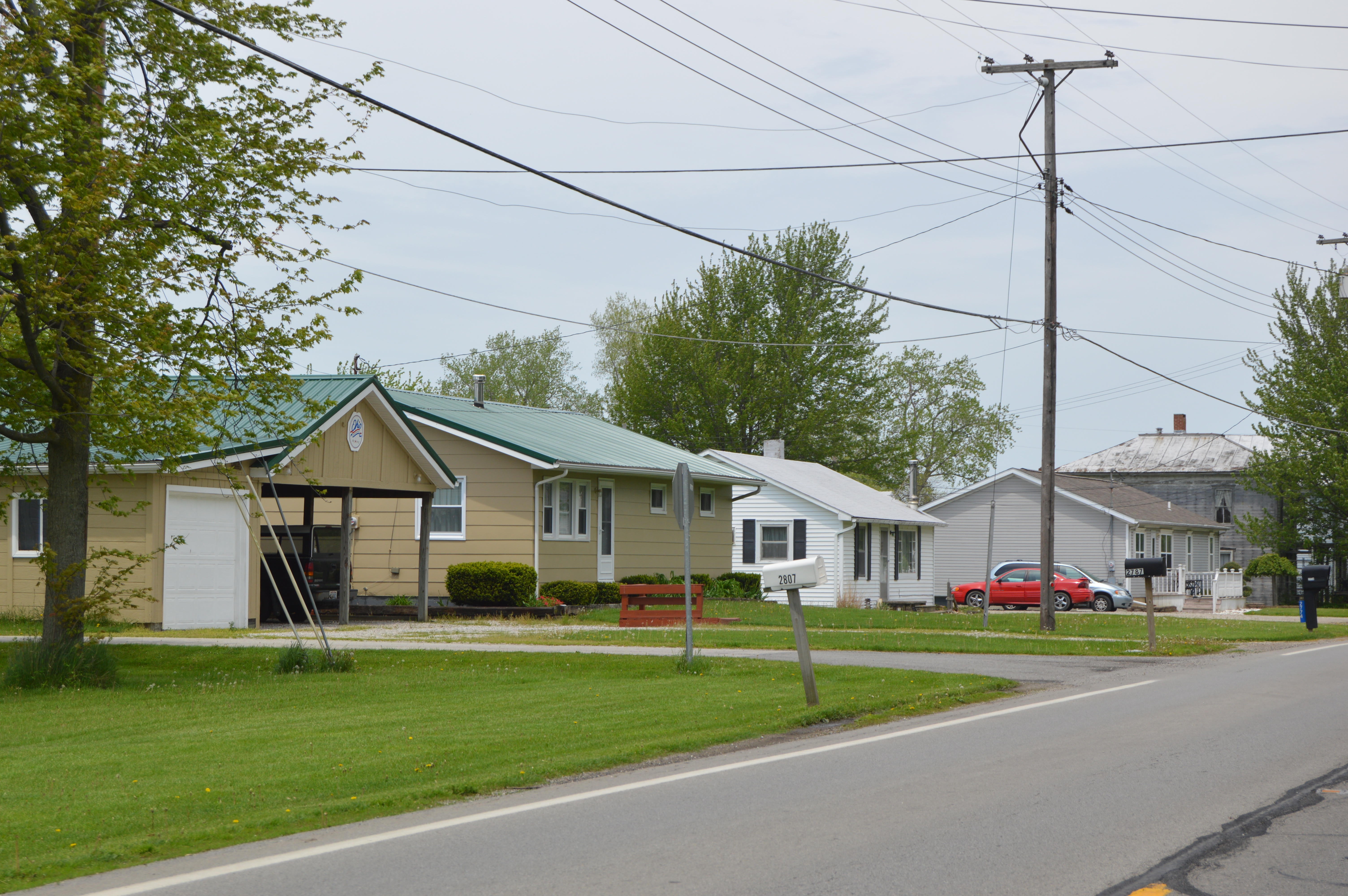 Houses on the western side of State Route 4 at Siam in Reed Township, Seneca County, Ohio, United States.